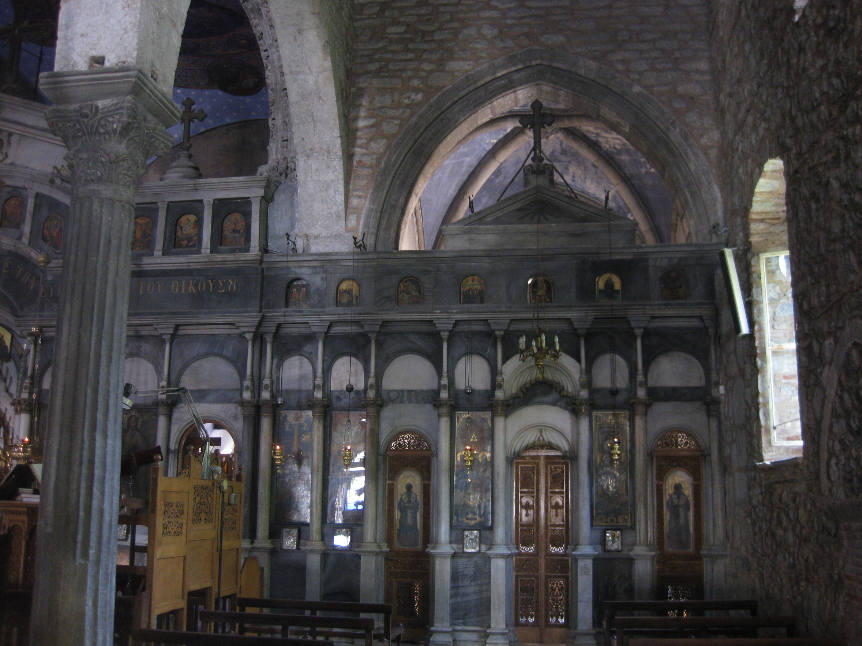 The Church of Agia Paraskevi.